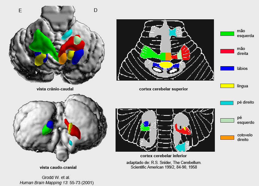 Areas of activation of lips, tongue, hands, and feet in the cerebellar cortex